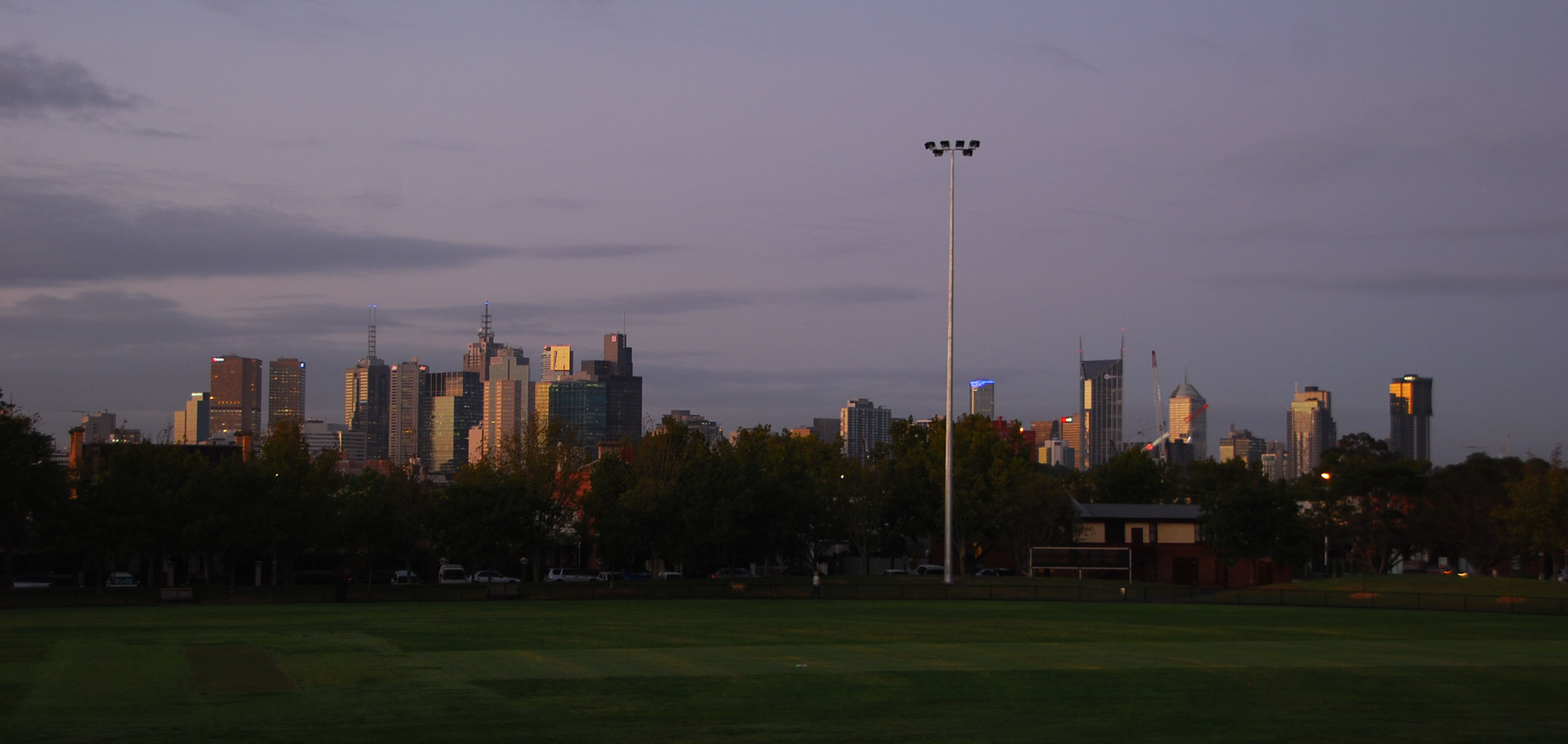 An oval, with the skyscrapers of a city in the near distance. The dawn sky is a soft purple colour.